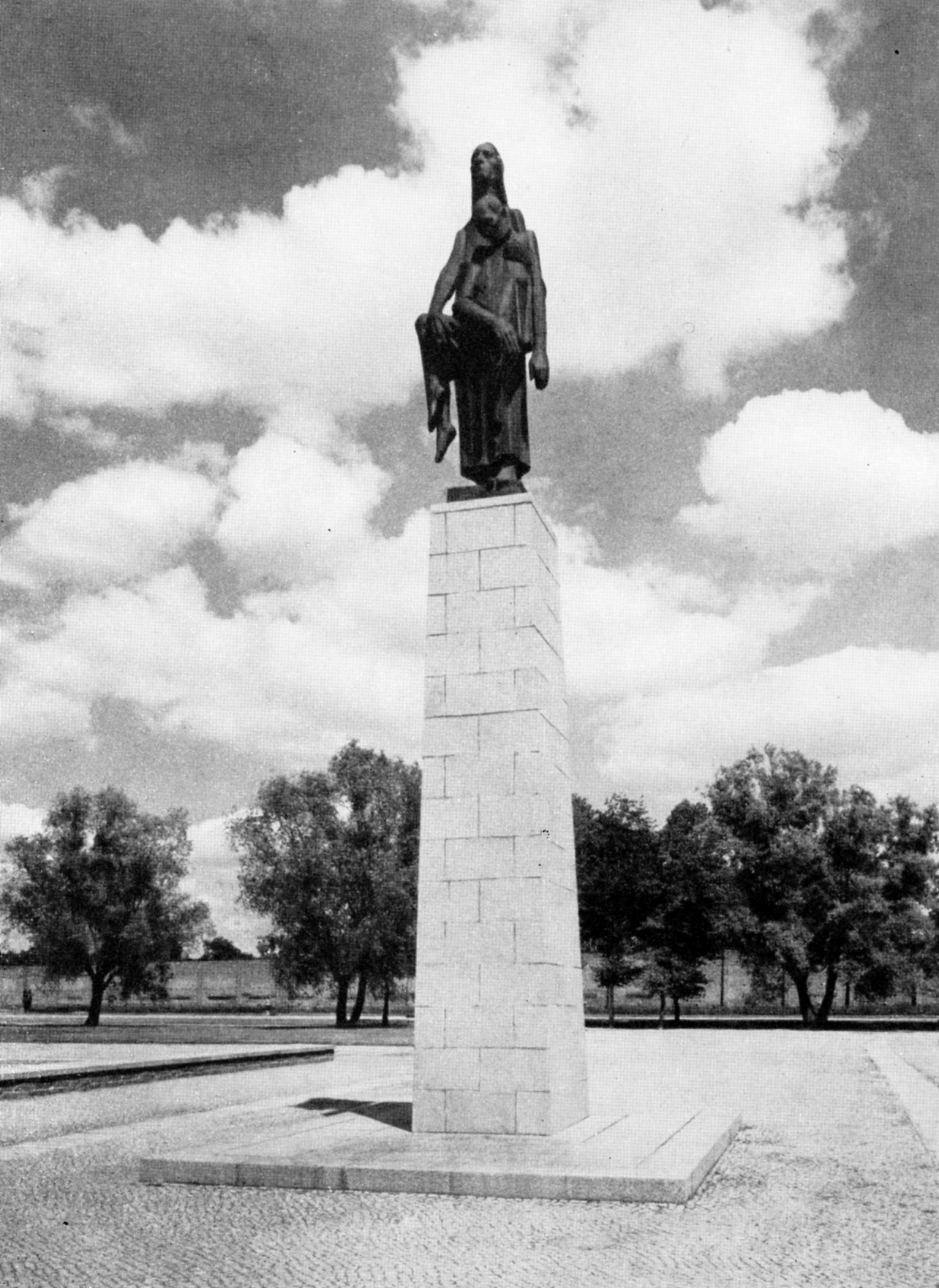 With permission by the legal sucessor Mark Lammert.